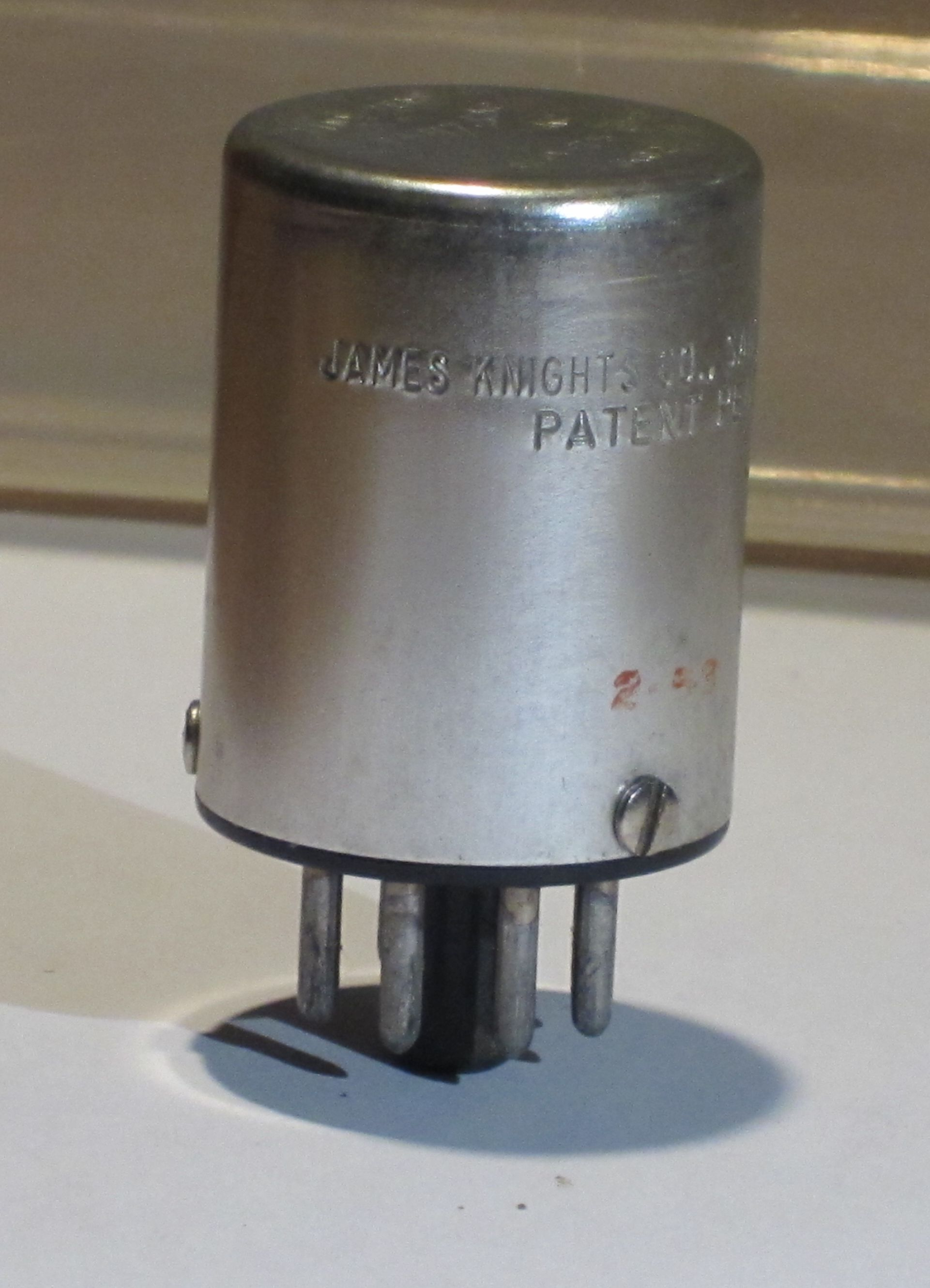 This miniature crystal oven was used to stabilize the transmitter crystal oscillator in a vacuum-tube Canadian Marconi mobile radio transceiver. It used 6 V DC power from the vehicle battery to keep the crystal at a constant 75 C temperature. The unit plugged into a standard octal tube socket.